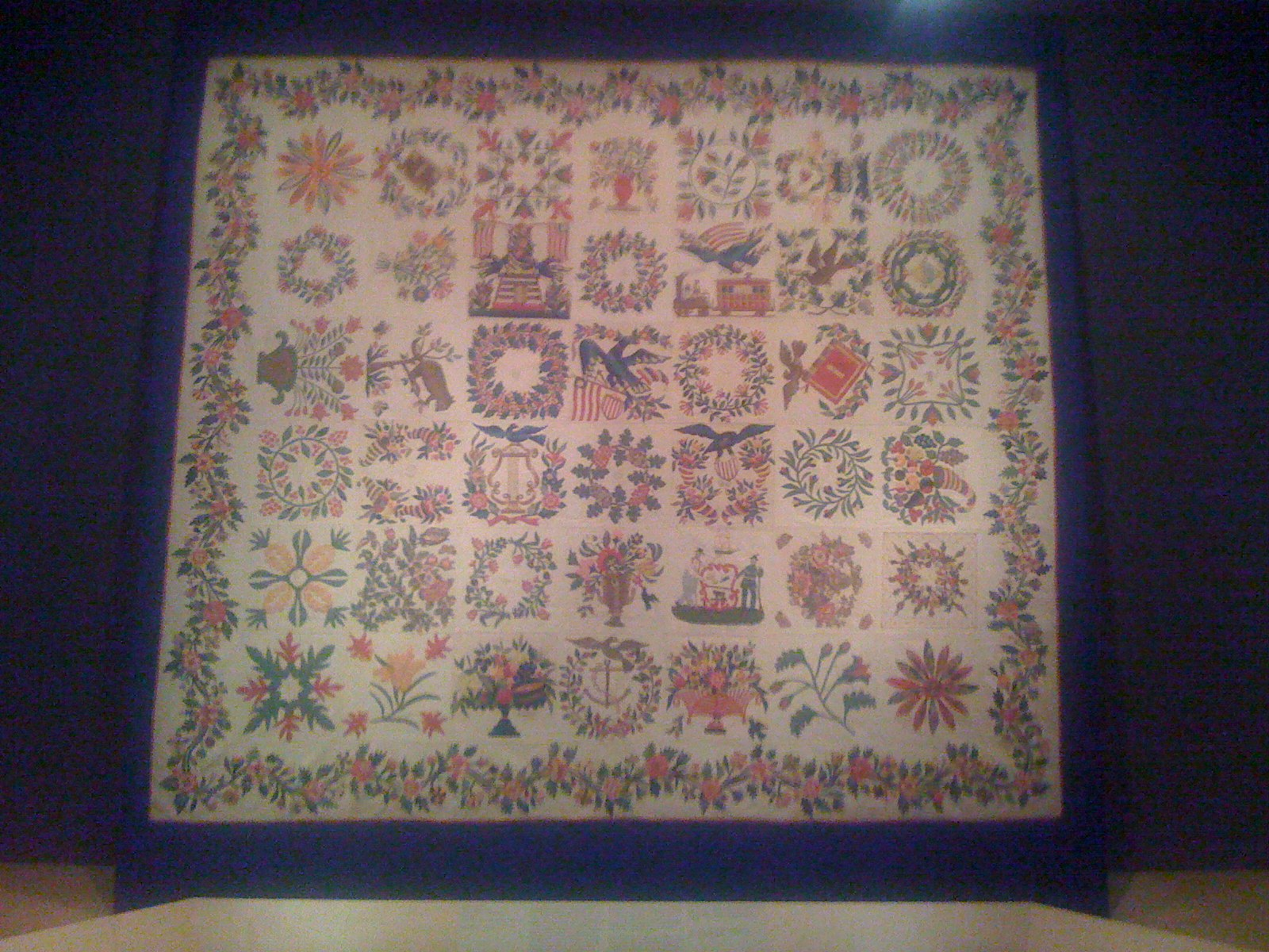 Album Quilt (c. 1850). Unknown Maker. Part of the collection of the Baltimore Museum of Art. Licensing Photo: Quilt